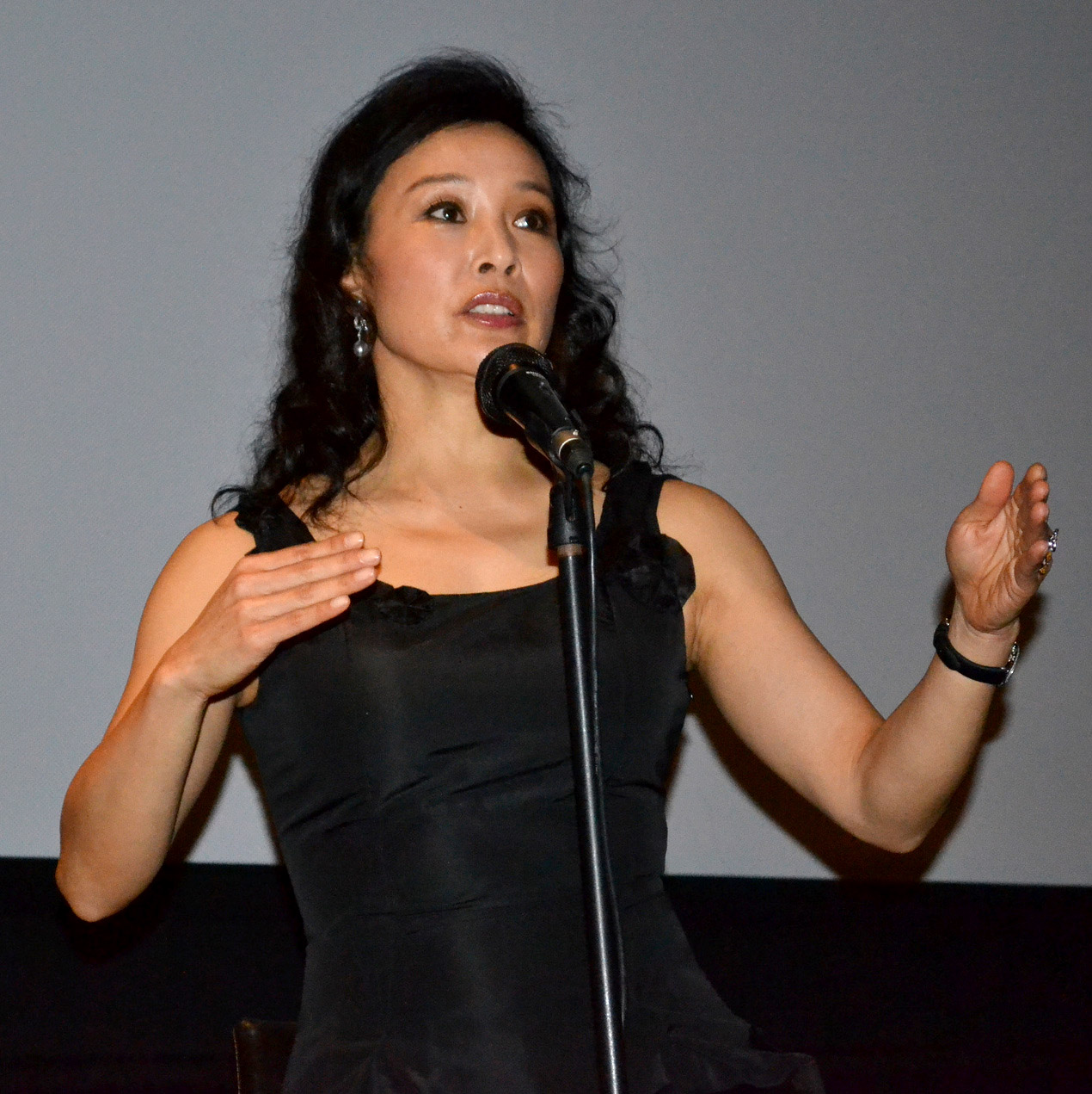 Joan Chen at the 30th San Francisco International Asian American Film Festival, discussing her 1998 film Xiu Xiu: The Sent-Down Girl